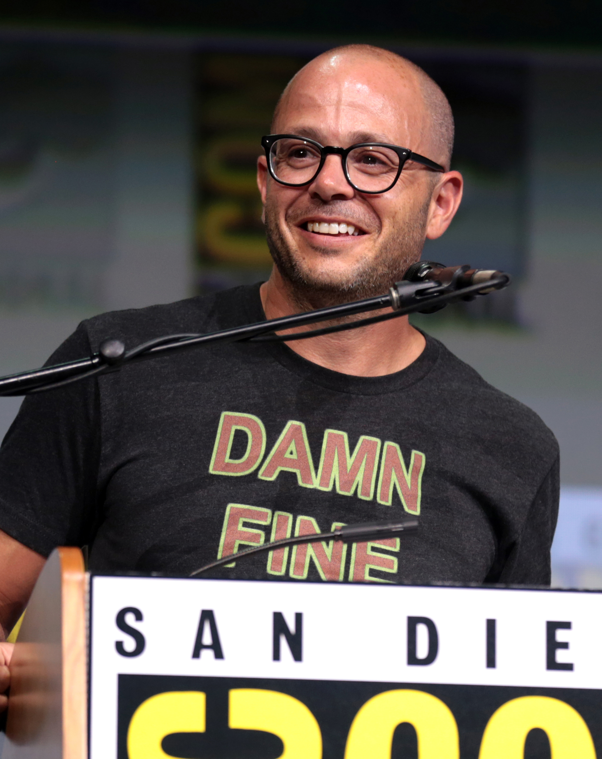 Damon Lindelof speaking at the 2017 San Diego Comic-Con International in San Diego, California.